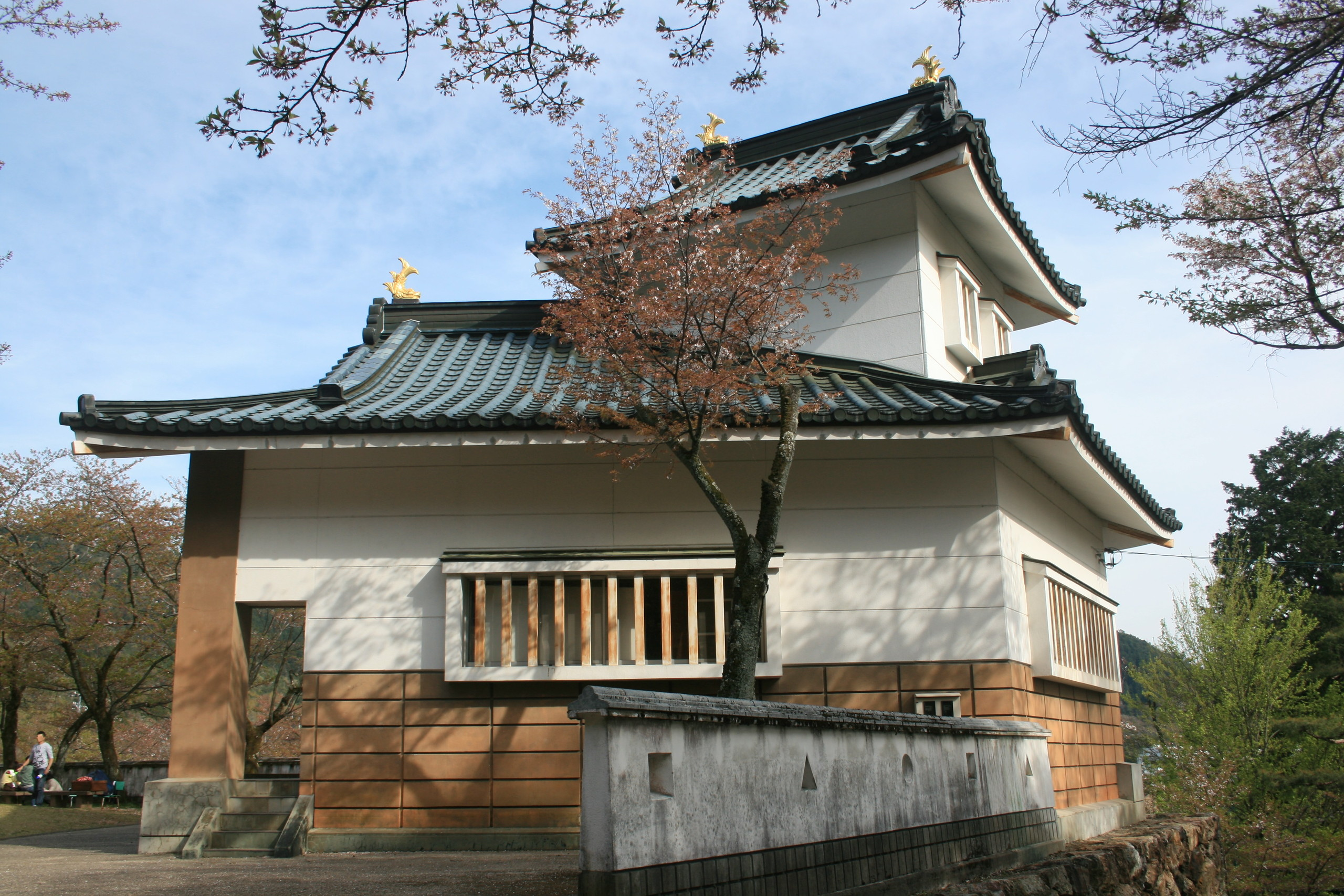 Mogitoride of Ogurayamajō (Ogurayama Castle), in Mino, Gifu, Japan.